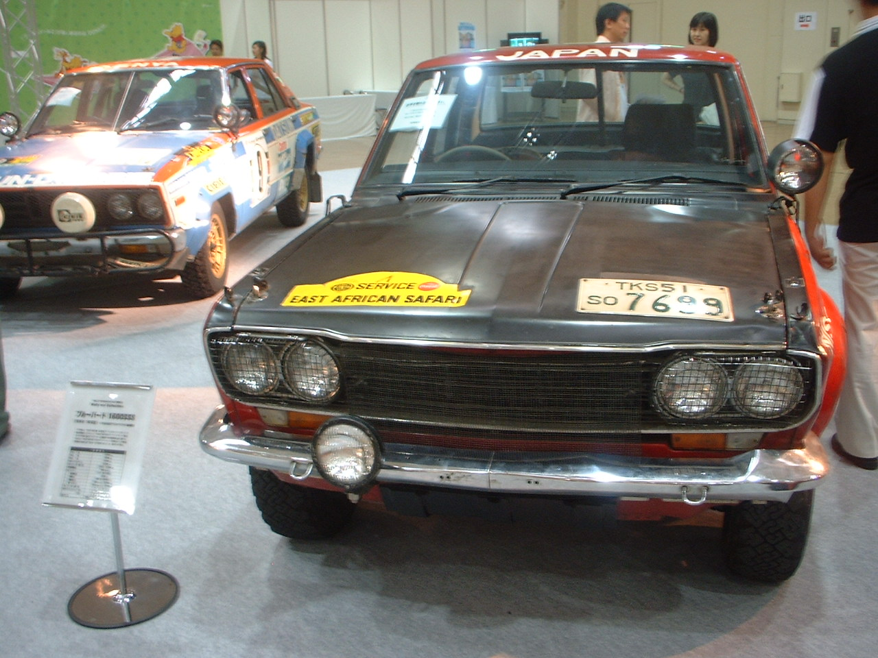 Nissan BlueBird P510 Gr.4rallycar